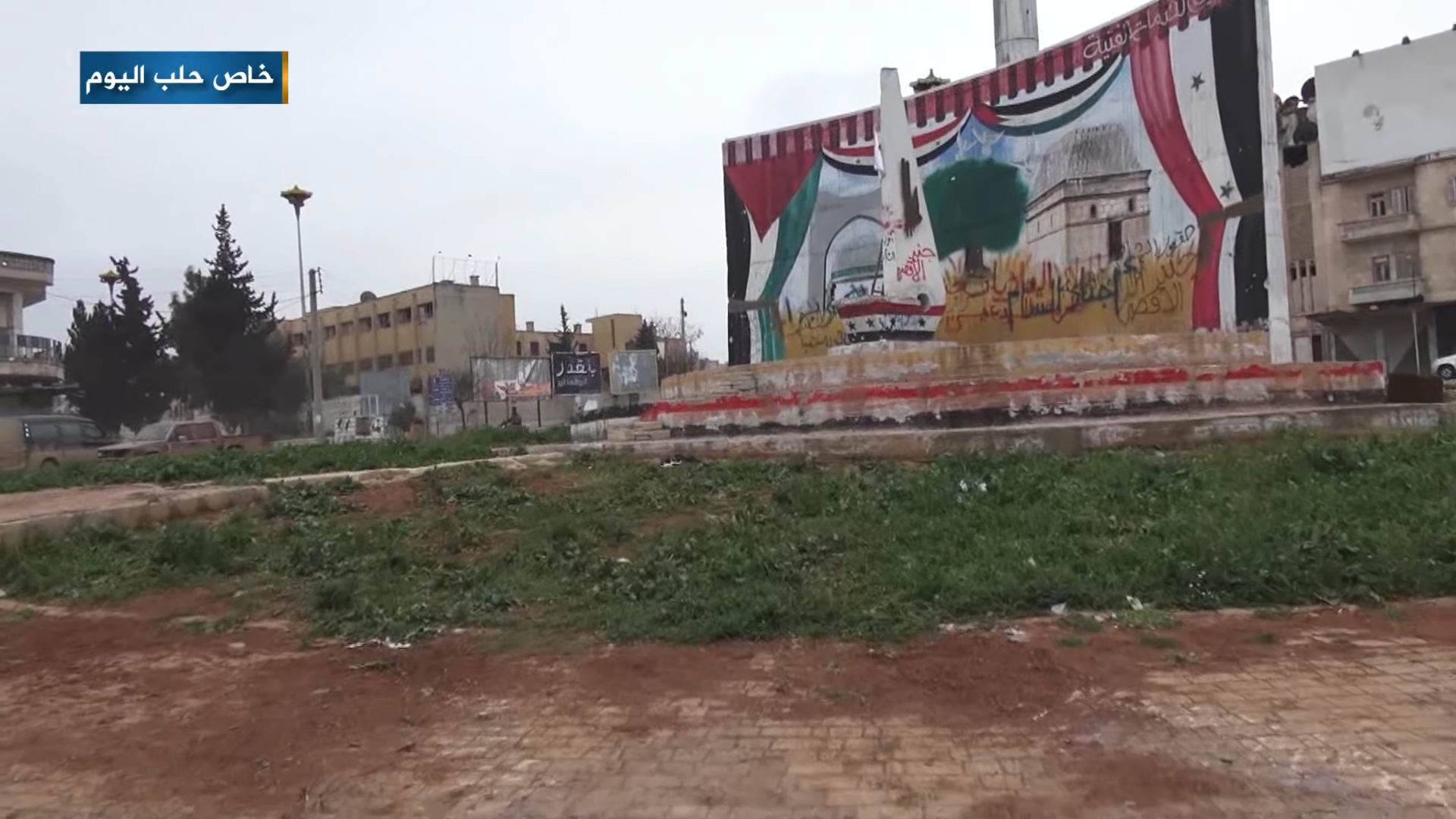 Mural of the Arab Socialist Ba'ath Party – Syria Region at the Mihrab roundabout in the center of the city of Idlib, northwestern Syria.